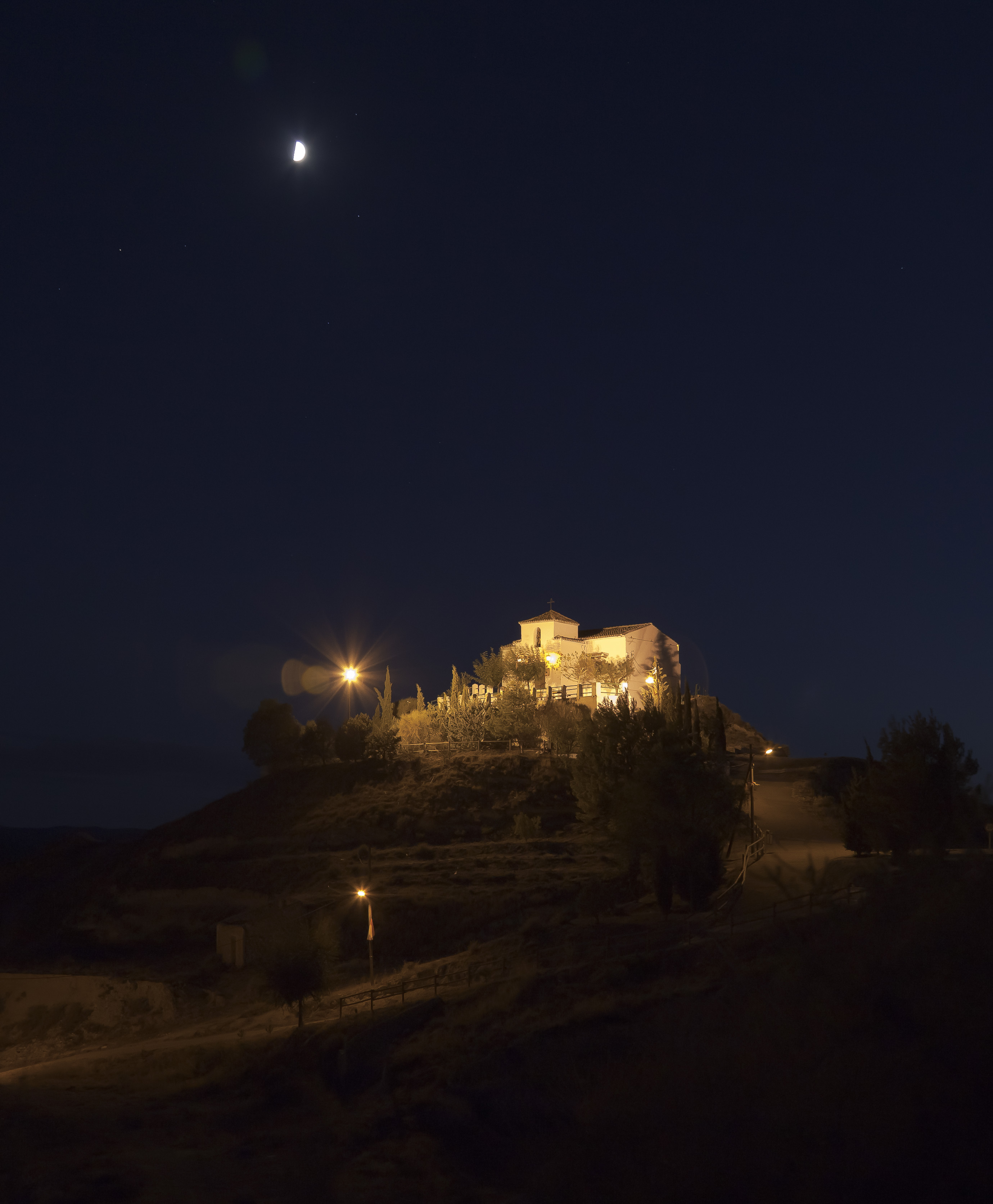 Hermitage of San Roque, Calatayud, Spain